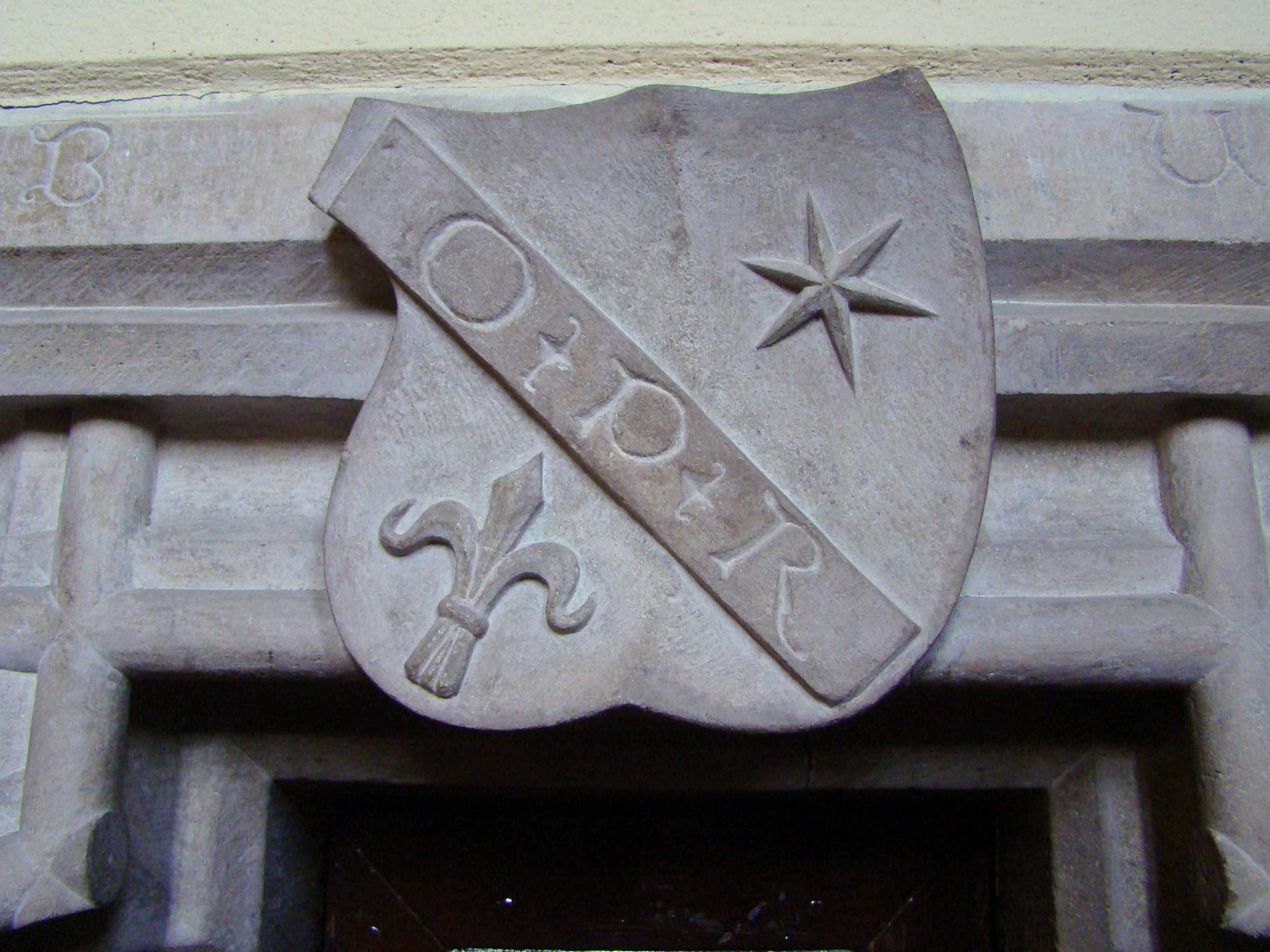 Lutheran church in Reghin, Mureş county, Romania